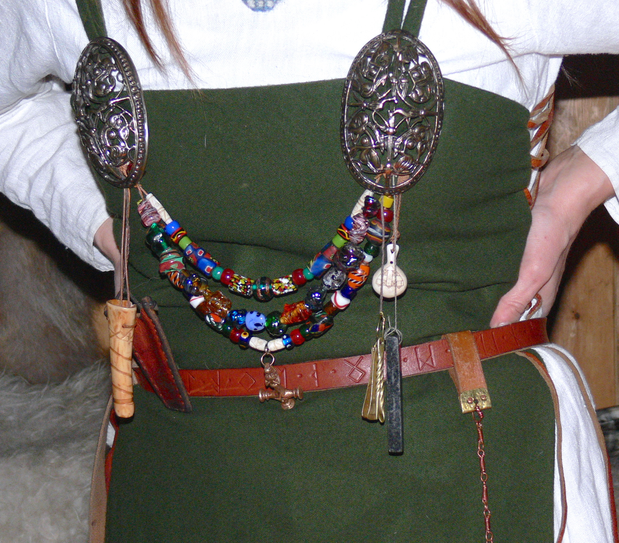 Eiríksstaðir. Front of a Viking woman.